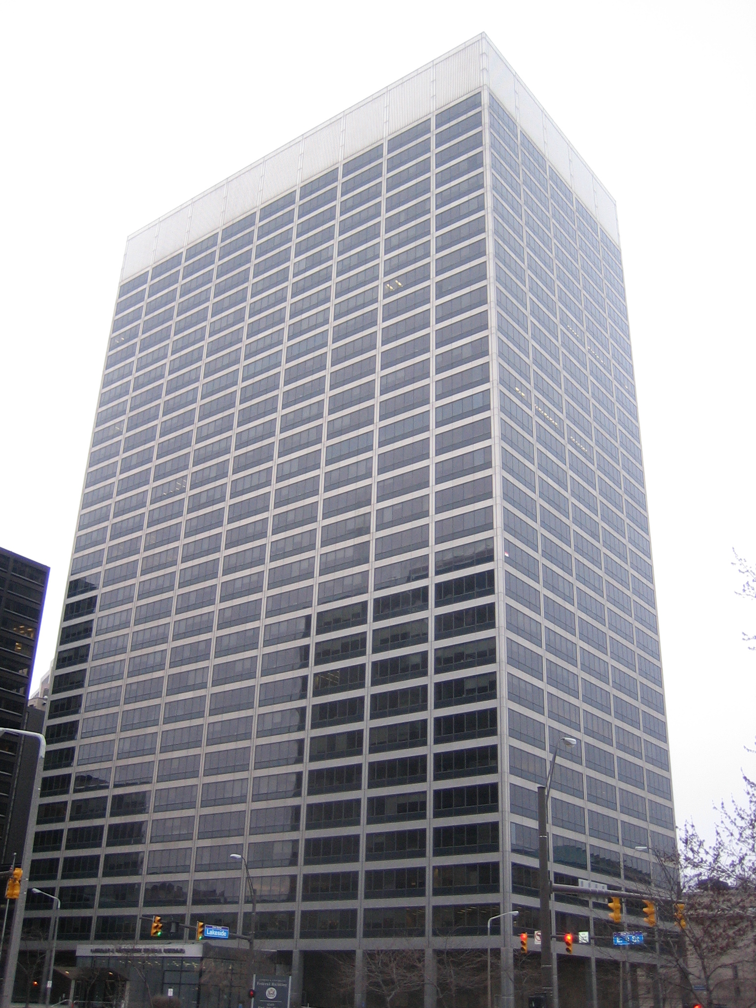 The Anthony J. Celebrezze Federal Building in Cleveland